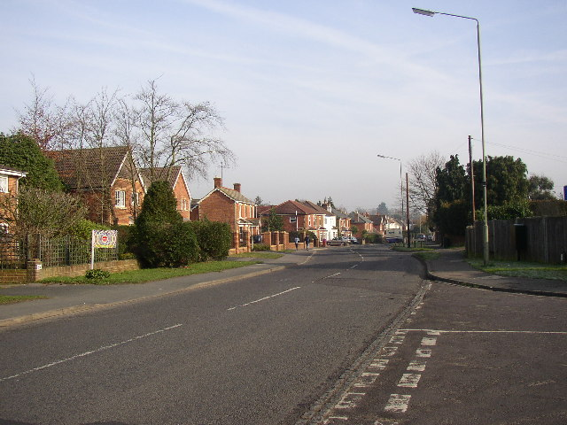 Ash Street, Ash, Surrey. Looking eastwards. Here is a rare quiet period on this busy main road (A323). In the 19C, there were houses here and there along the road, some of them dating from the 16C and 17C. Now all the gaps are filled and it is solid suburbia.